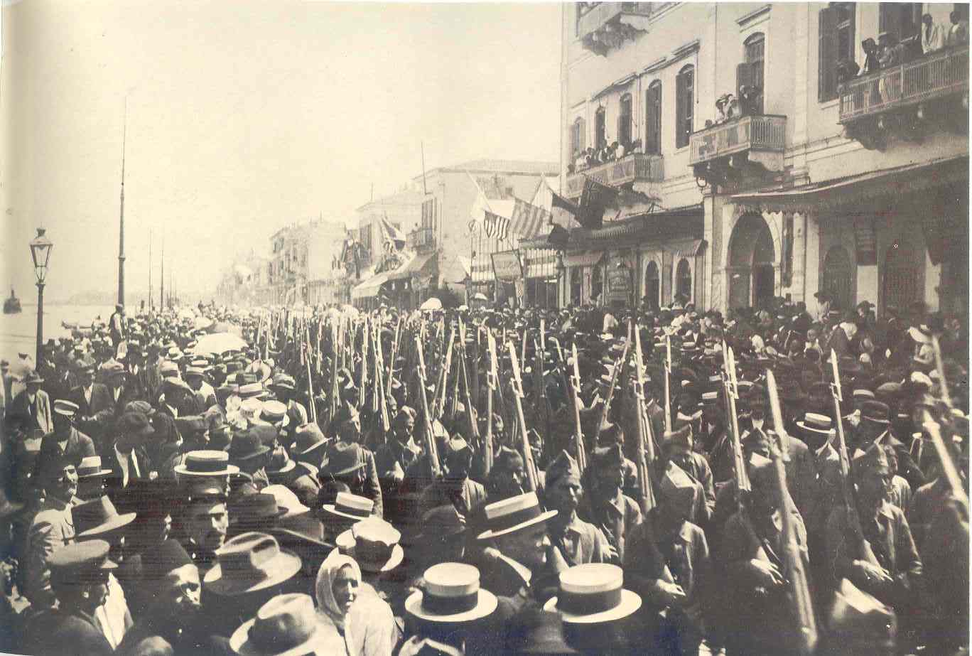 March of the Greek Army in Smyrne/Izmir, May 2, 1919.